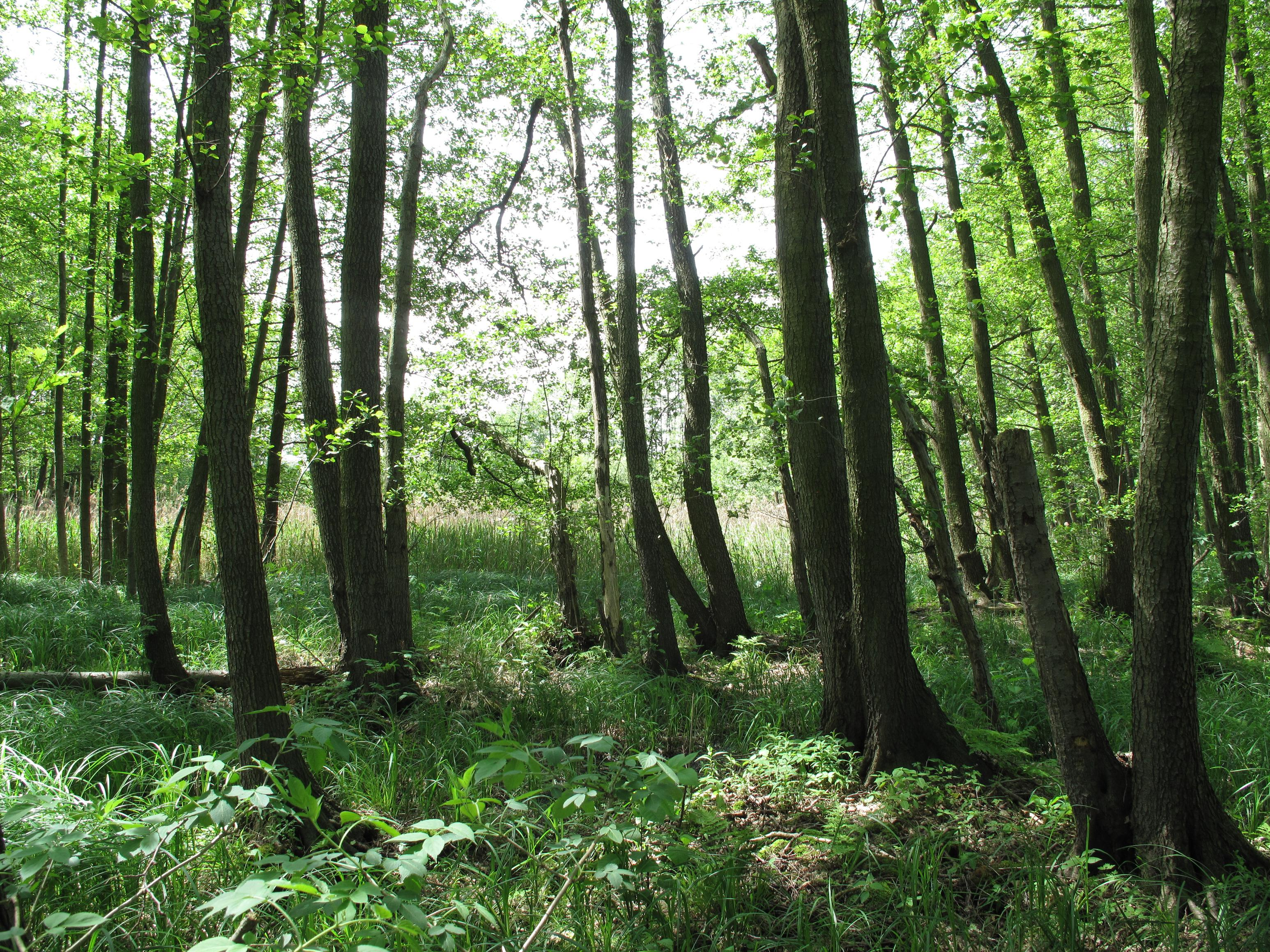 Carr nearby the Fresdorfer See (lake) on the border between Stücken and Fresdorf. The lake itself is situated in Stücken. Fresdorf and Stücken are parts of Michendorf in the district Potsdam-Mittelmark, state Brandenburg, Germany.